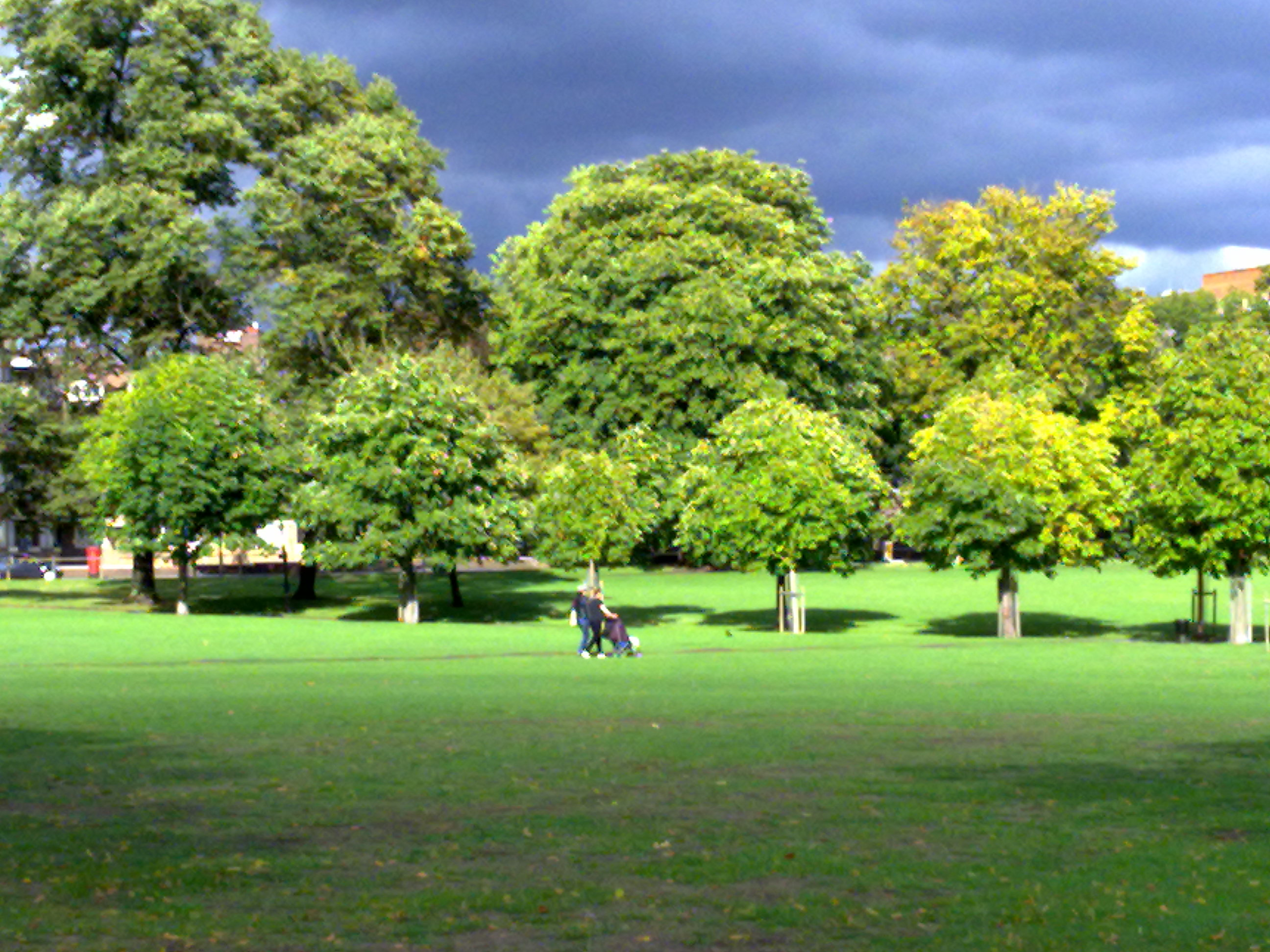 Peckham Rye Common, Creative Commons Attribution-ShareAlike 3.0 license